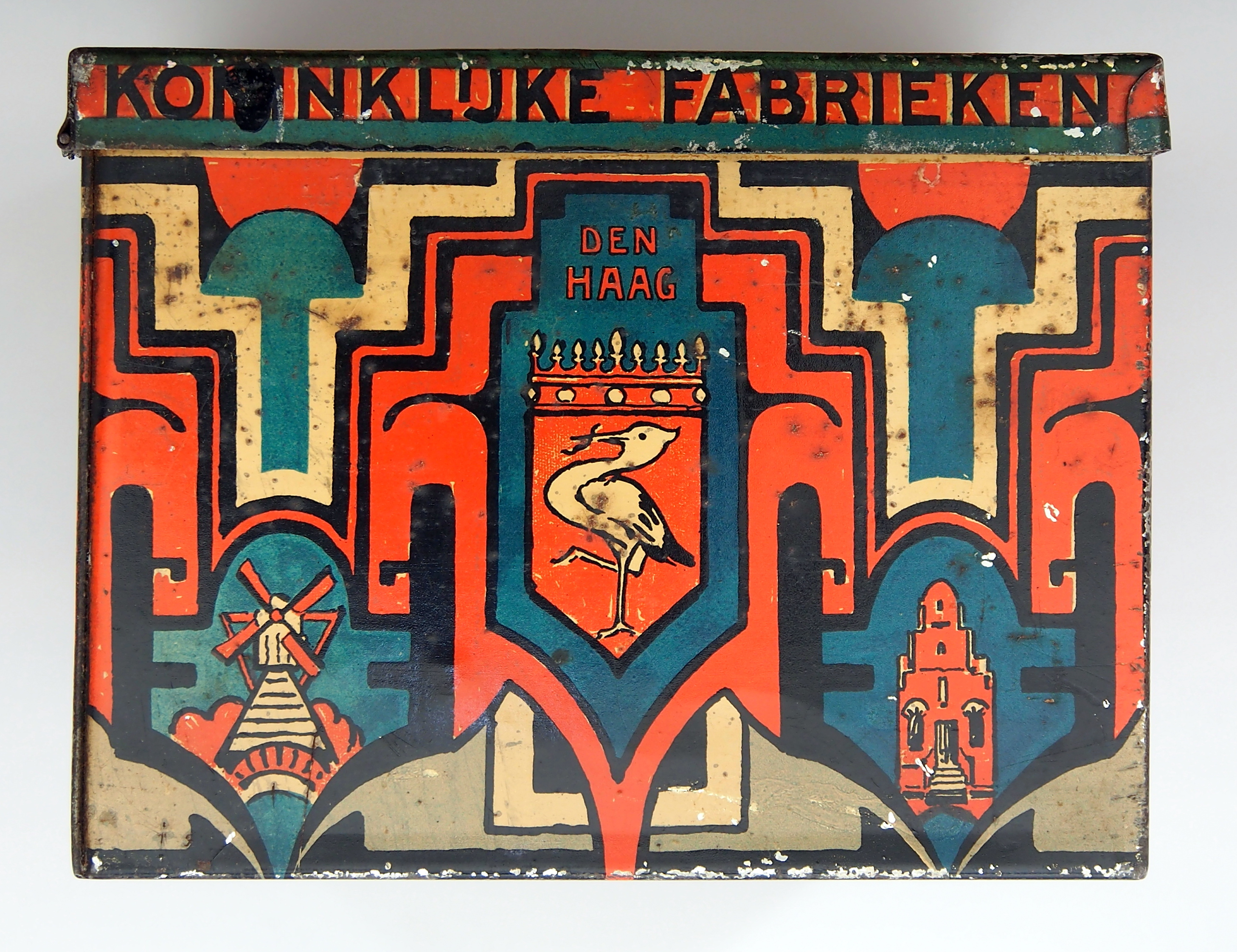 Very old packaging of a Dutch product that is not produced and not sold any more. Photographed at a collector of Droste. For info see tincollectors.nl or